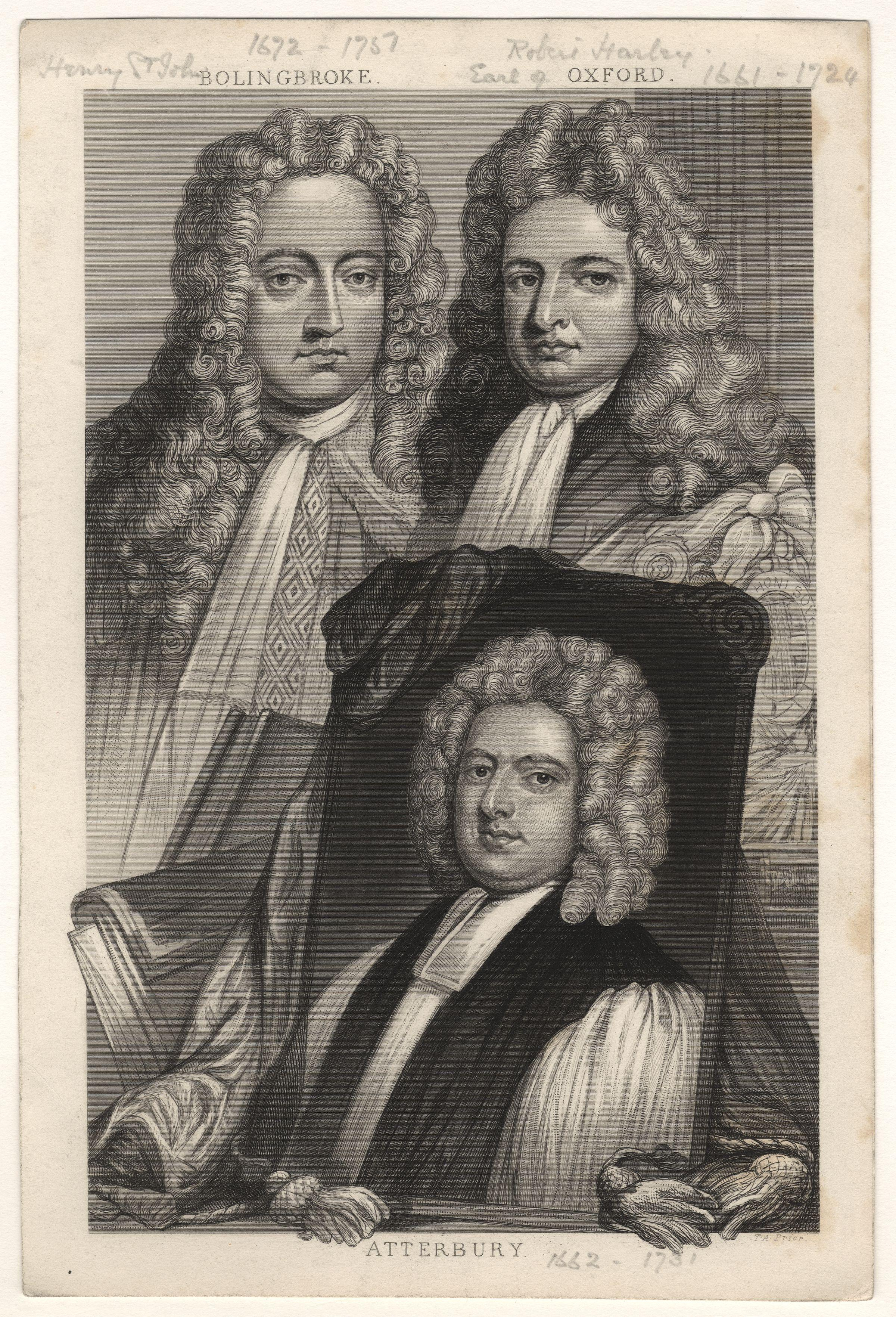 Henry St John, 1st Viscount Bolingbroke; Robert Harley, 1st Earl of Oxford; Francis Atterbury, by Sir Godfrey Kneller, Bt (died 1723). All images in this batch have been confirmed as author died before 1939 according to the official death date listed by the NPG.